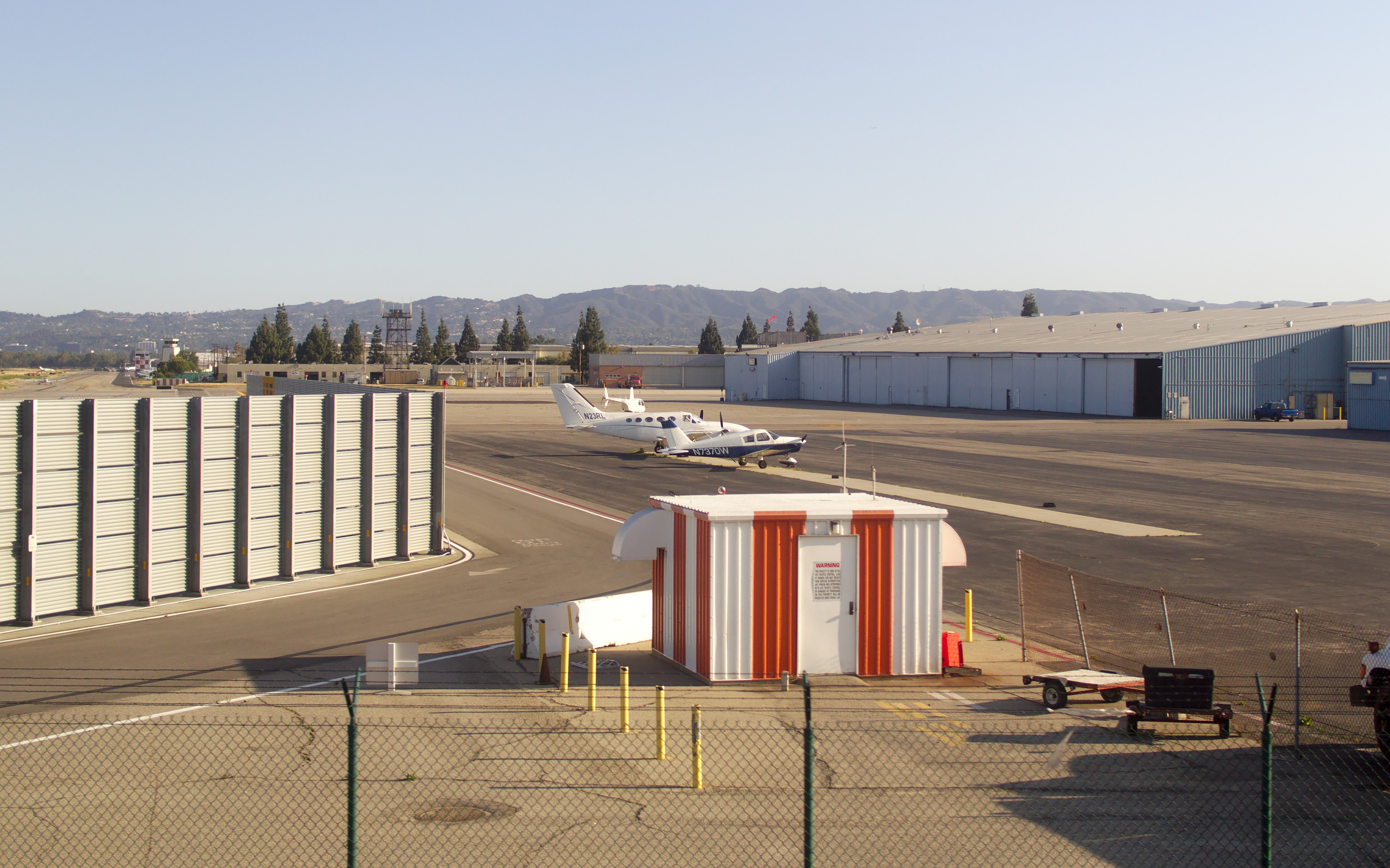 Van Nuys Airport viewed from a train on the tracks to the north.